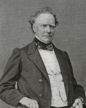 Portrait of the swedish writer Carl Anton Wetterbergh.